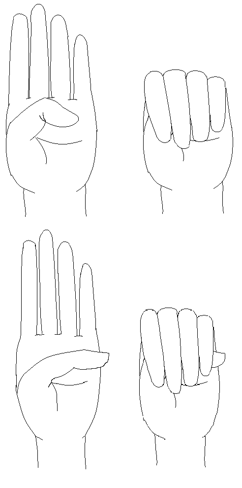 Steinberg's thumb sign (Marfan's syndrome) - a flexed thumb grasped within a clenched palm protrudes beyond the ulnar border of that hand.